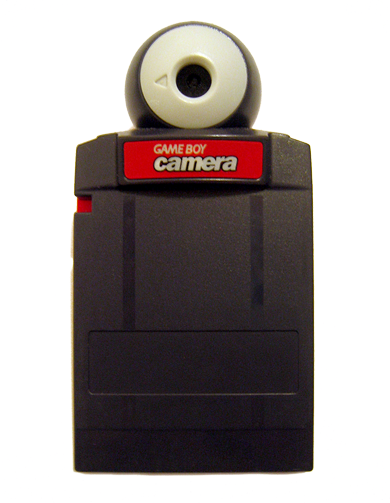 Red Game Boy Camera